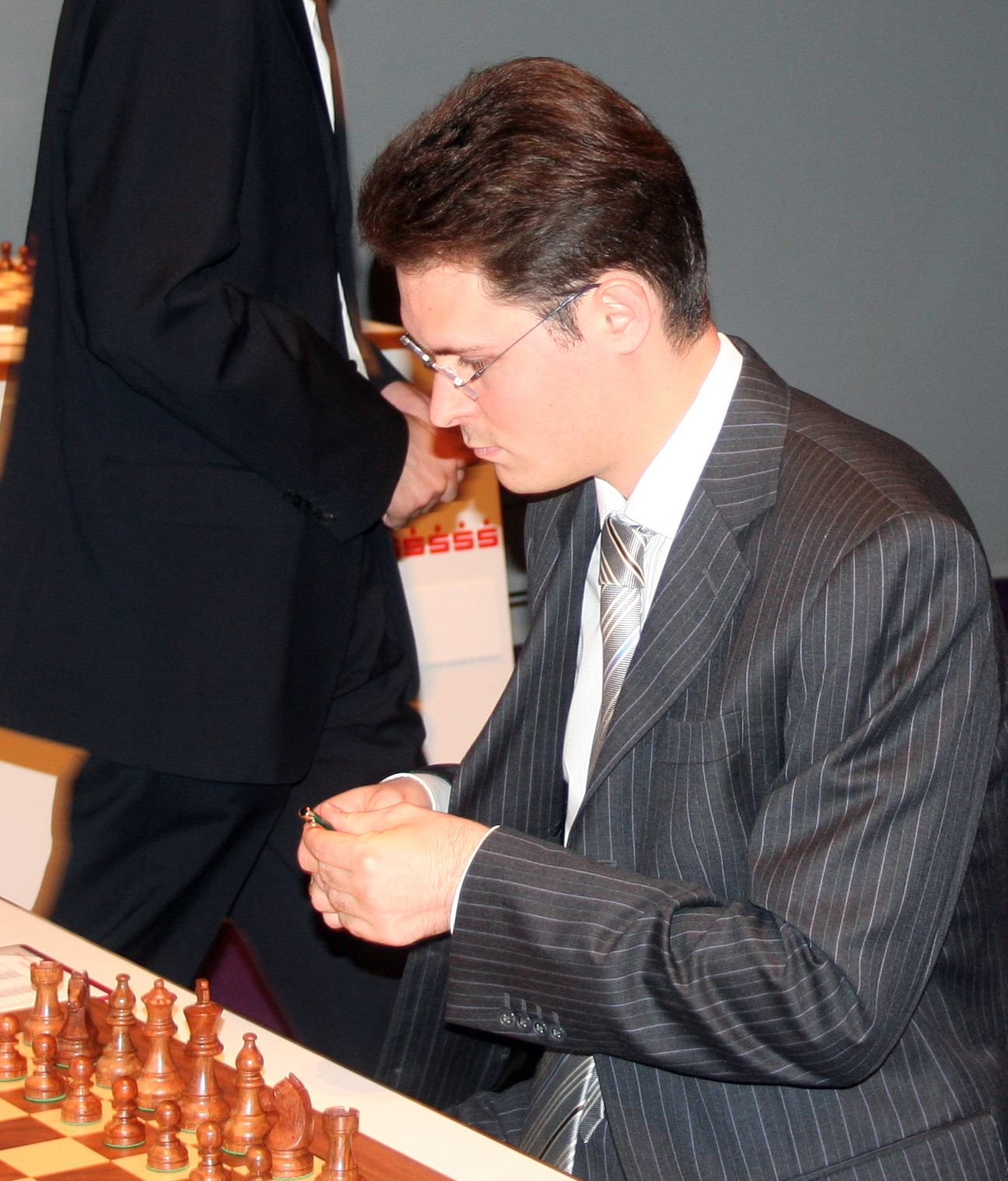 Péter Lékó – Hungarian grandmaster.